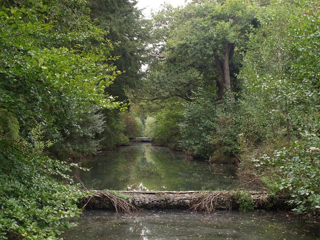 Ventiford Brook Having somehow found its way under the Drum Bridge interchange on the A38, Ventiford Brook drops through Blacksticks Plantation down a series of tiny weirs towards the camera. Behind the footbridge from which this was taken, it enters Stover Lake.